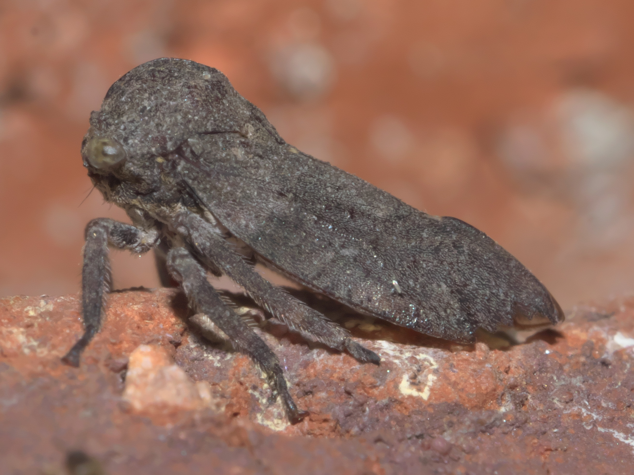 Microcentrus caryae, Family: Treehoppers, Size: 7.7 mm, ID Confidence: 98